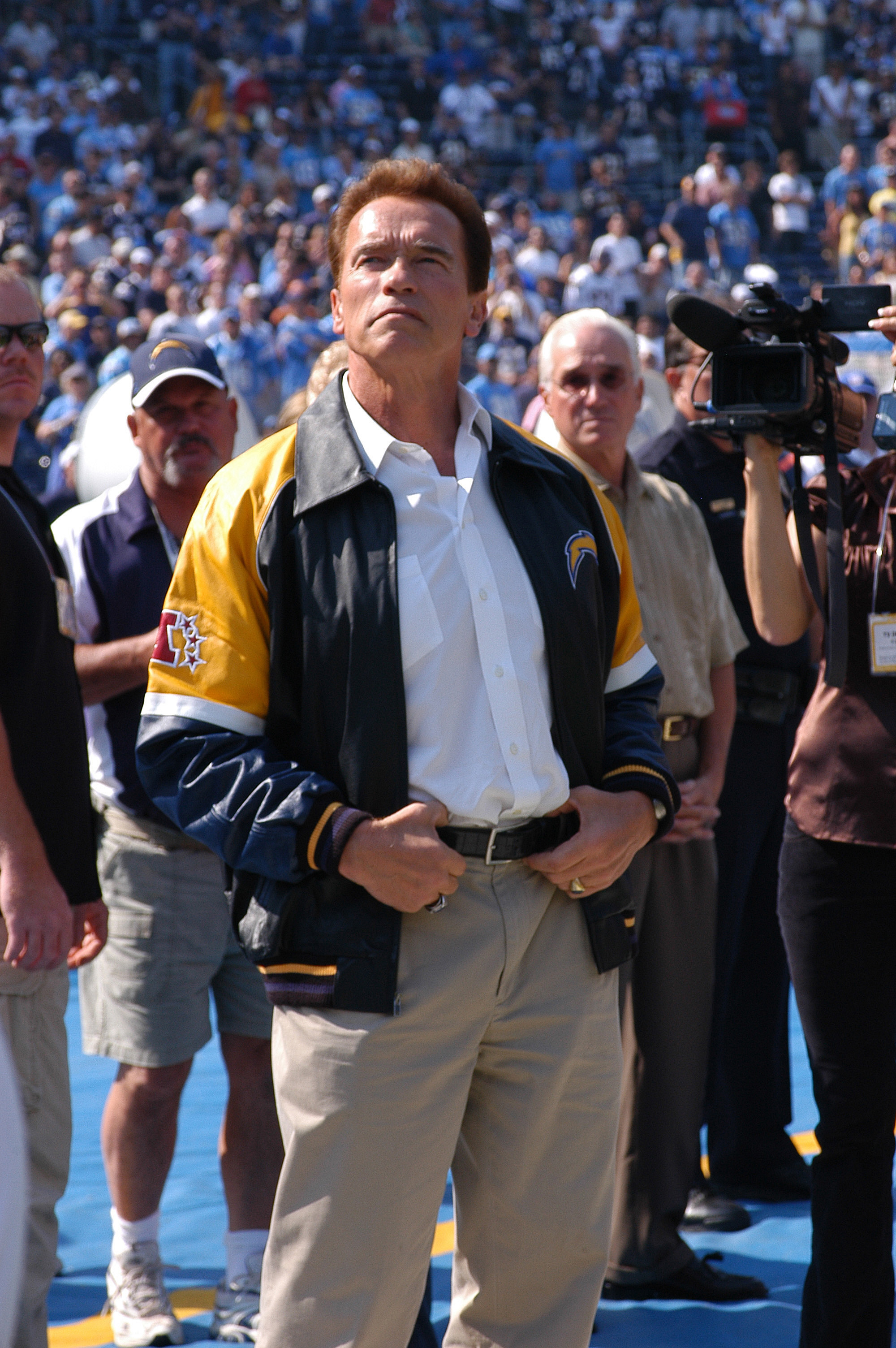 California Gov. Arnold Schwarzenegger attends a Chargers football game, which honored civilian and military personal adding in the Southern California firestorms of 2007, in San Diego, Calif., Oct. 28, 2007. This was the first game held in Qualcomm Stadium since being used as an emergency shelter for wild fire evacuees. ID: 071028-N-7206K-004